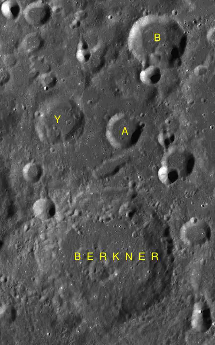 Part of the chart LAC-54 used for the presentation